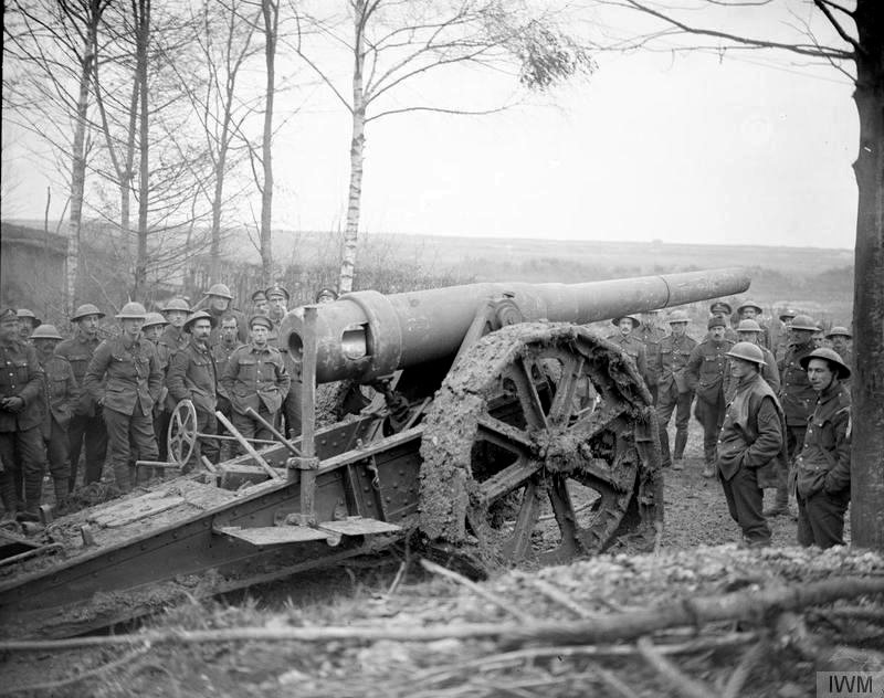 The Battle of Cambrai, November-december 1917 A captured German 15 cm naval gun. Ribecourt, 29 November, 1917.